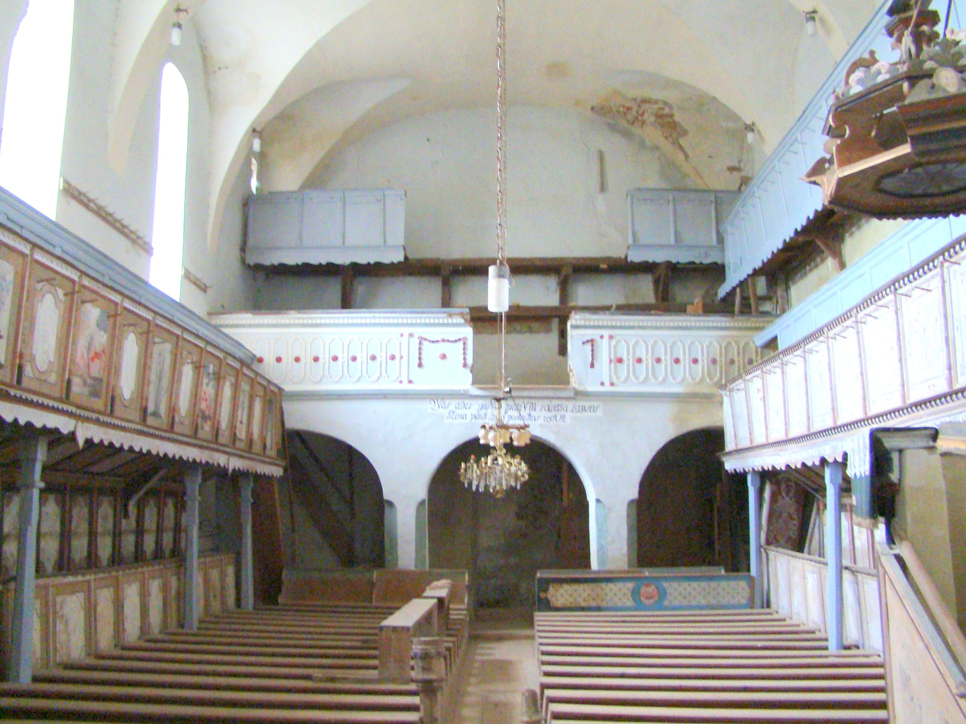 Fortified church in Roadeș, Brașov County, Romania